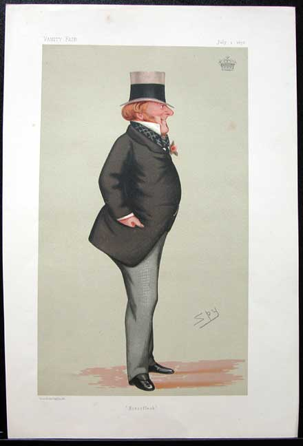 Statesmen No.228: Caricature of The Earl of Portsmouth. Caption reads: "Horseflesh"